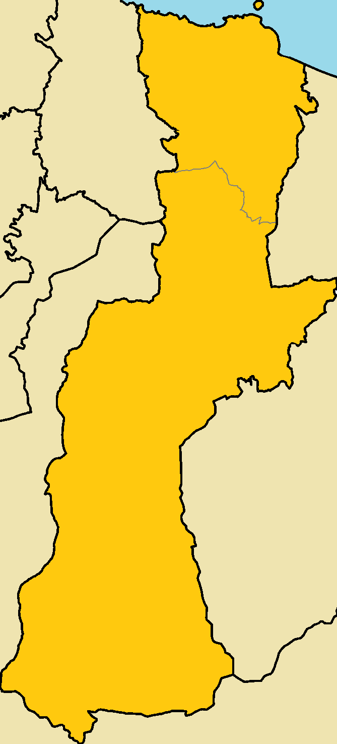 Xerovounos with quarters (de jure).